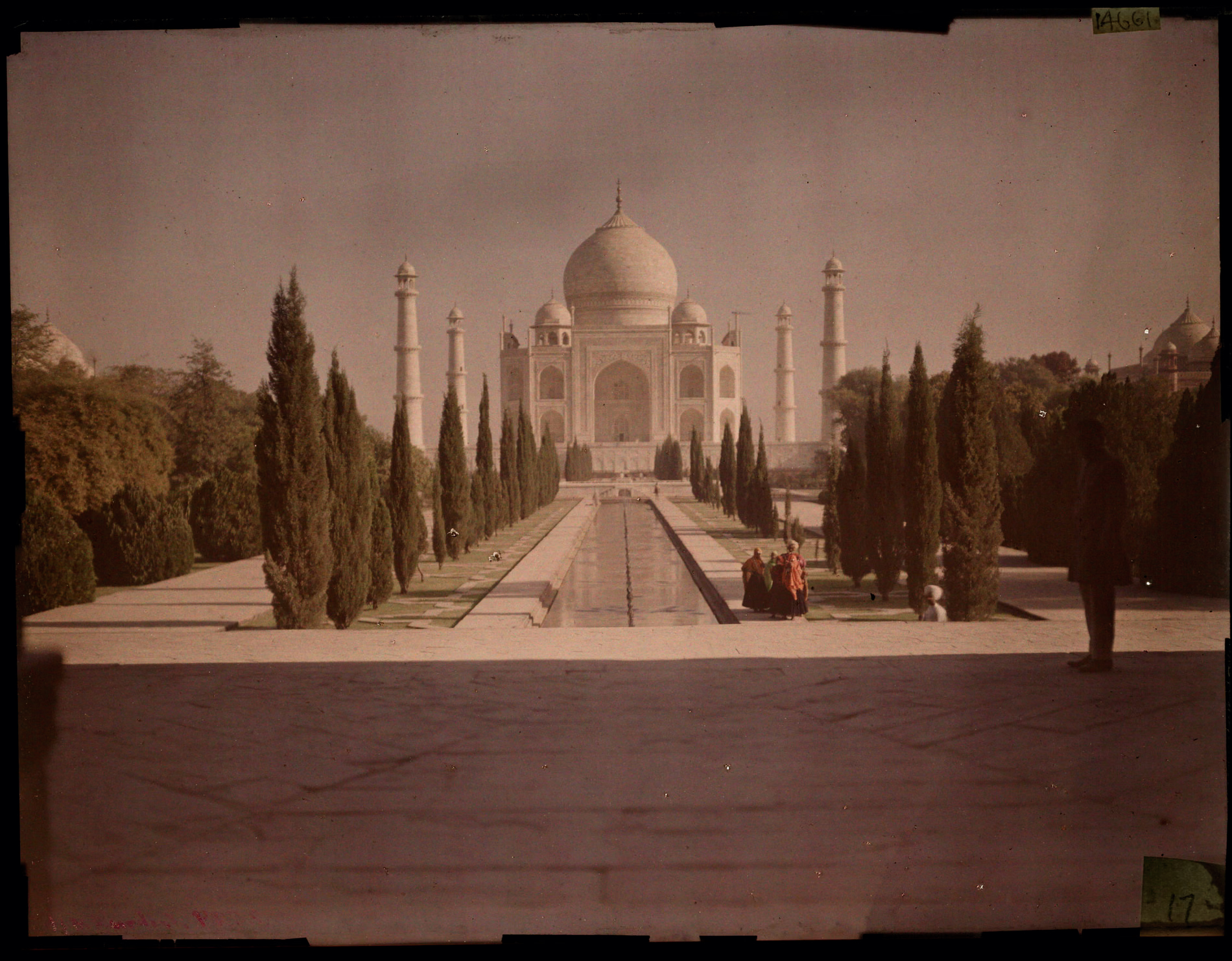 The Taj Mahal at Agra, India in the early morning light